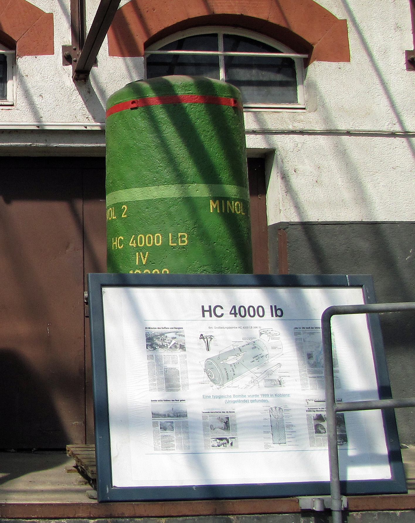 British WW2 Air-dropped bomb exhibited at Wehrtechnische Studiensammlung Koblenz